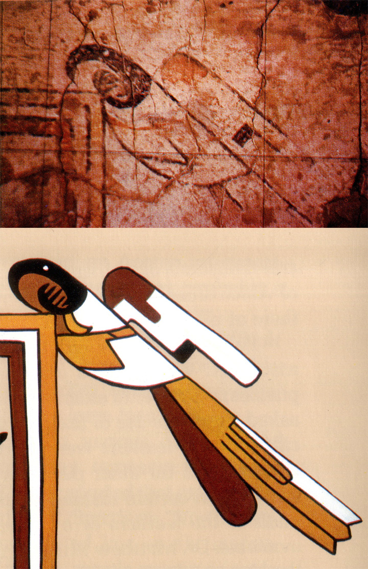 An edited compilation image of an original photograph and recreation based upon that photograph.